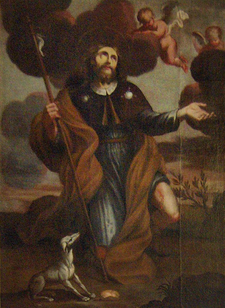 St. Roch; Oratory of St. Catherine of Alexandria; Church of S. Ambrogio, Alassio, Italy